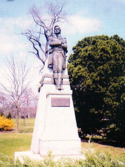 Statue of General George Rogers Clark in Quincy, Illinois commisioned by House Bill 10 od January 15, 1907